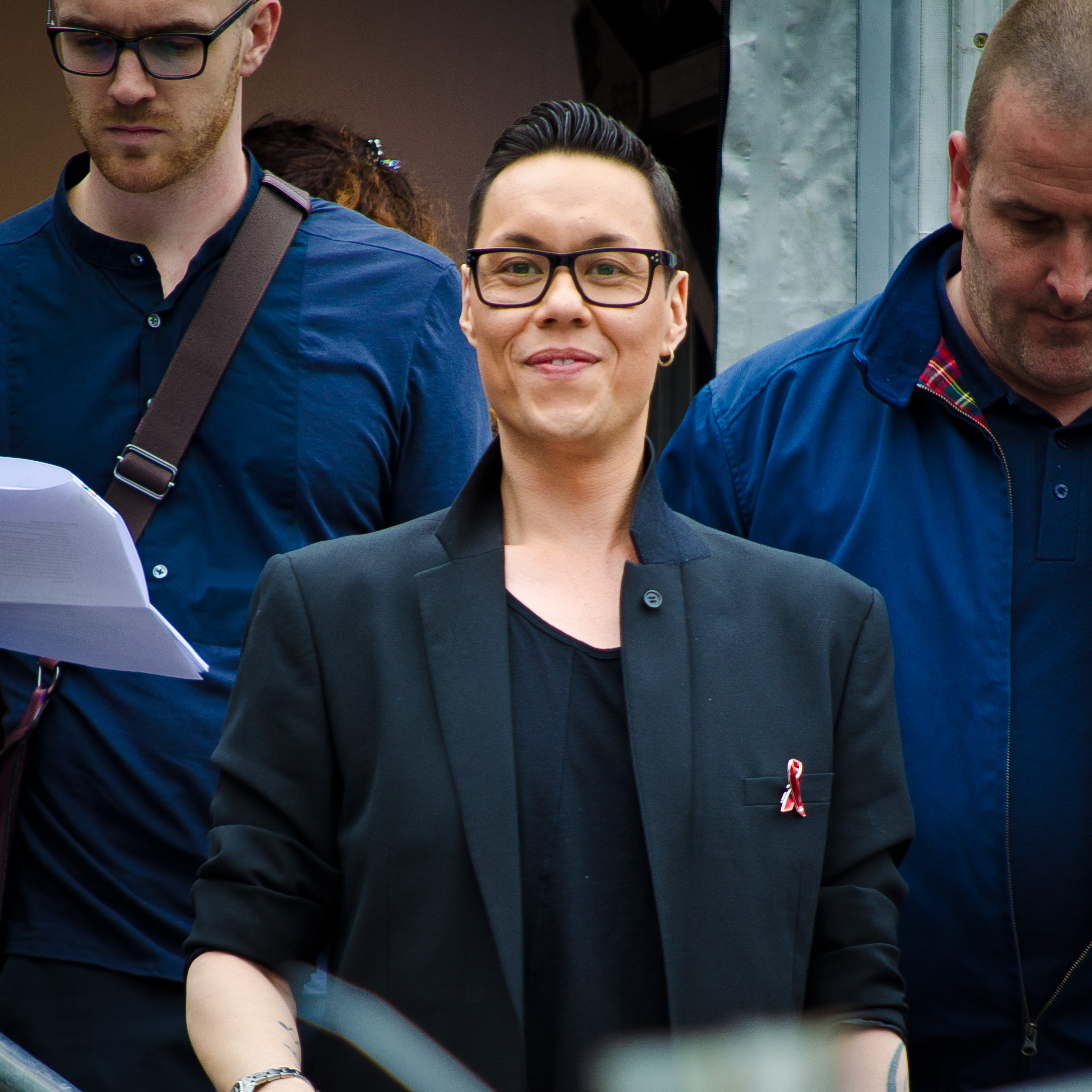 Gok Wan at the Pride festival, London 2012.